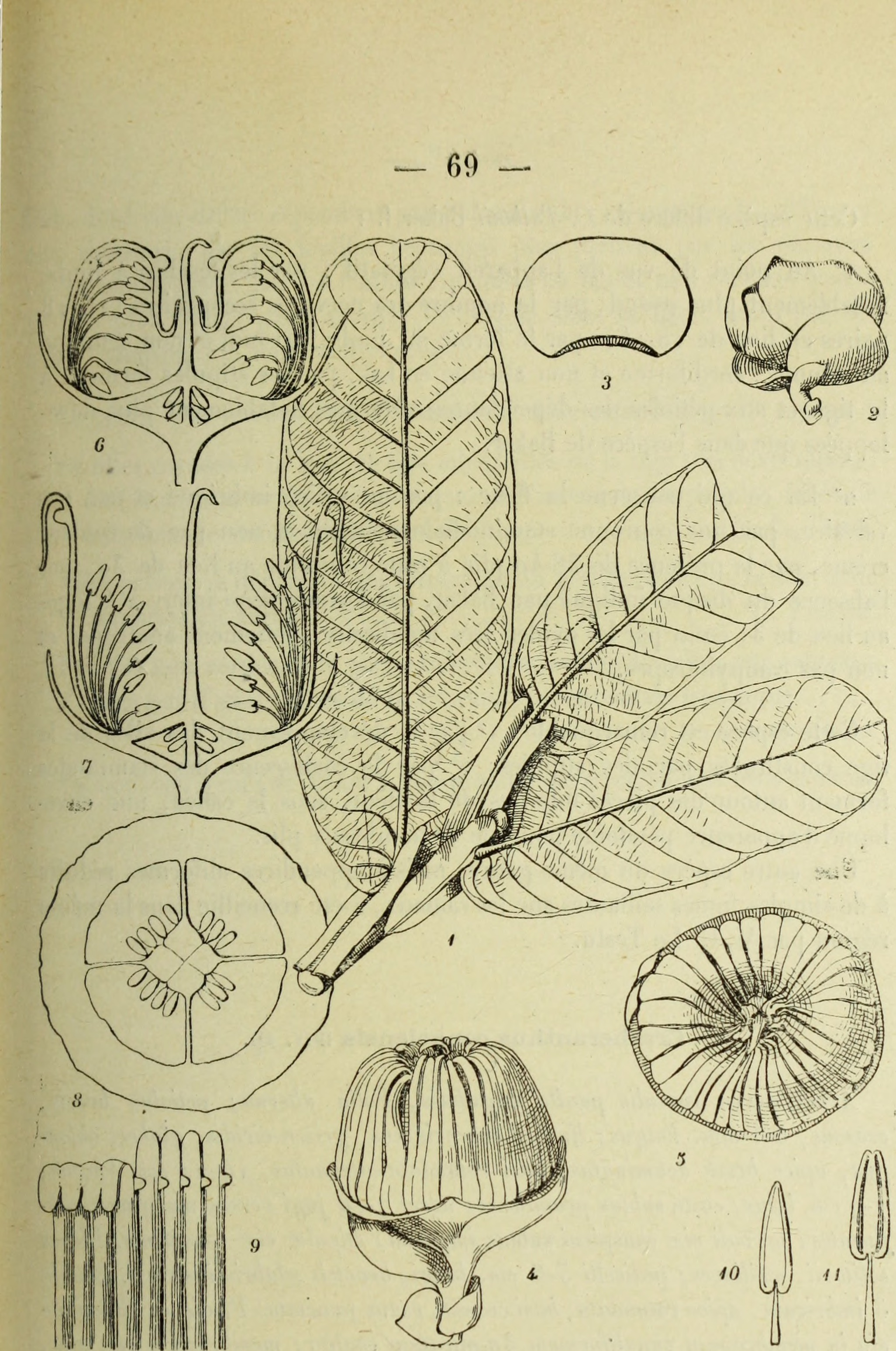 Title: Bulletin du Muséum d'histoire naturelle Year: 1895 (1890s) Authors: Muséum national d'histoire naturelle (Paris) Subjects: Natural history Publisher: Paris : Impr. nationale Text Appearing Before Image: ' Text Appearing After Image: Fig. 1. — Cratefanthm Le Testai H. Lec. i. Rameau avec fouilles X — 2. Un bouton, 1/1 ; — 3. Sépale détaché, 1/1; — h. Fleur après l'enlèvement des sépales pour montrer la couronne staminodiale: — 5. La même, \ue par la partie supérieure, X 3/a; — 6. Section verticale de la fleur avant l'anthèse;— 7. Section verticale de la fleur après l'anthèse; -- 8. Section transversale dans la région de l'ovaire; — 9. Fragmen de la couronne staminodiale avec bordure en partie relevée; — jo. Elamines avant et après la déhiscence de l'anthère, X 6